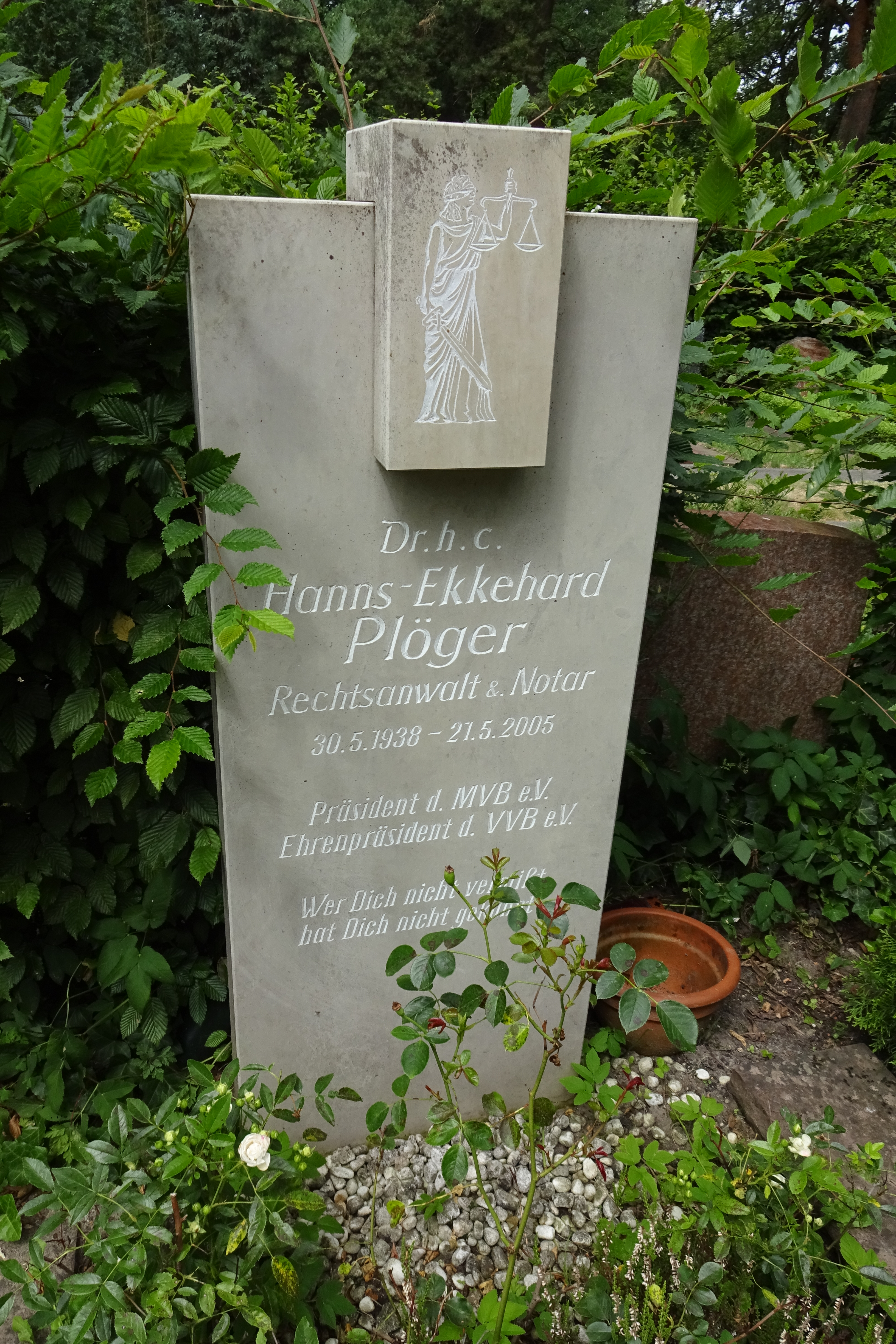 Grave of German lawyer and notary Hanns-Ekkehard Plöger in Friedhof Lichtenrade, Berlin-Lichtenrade